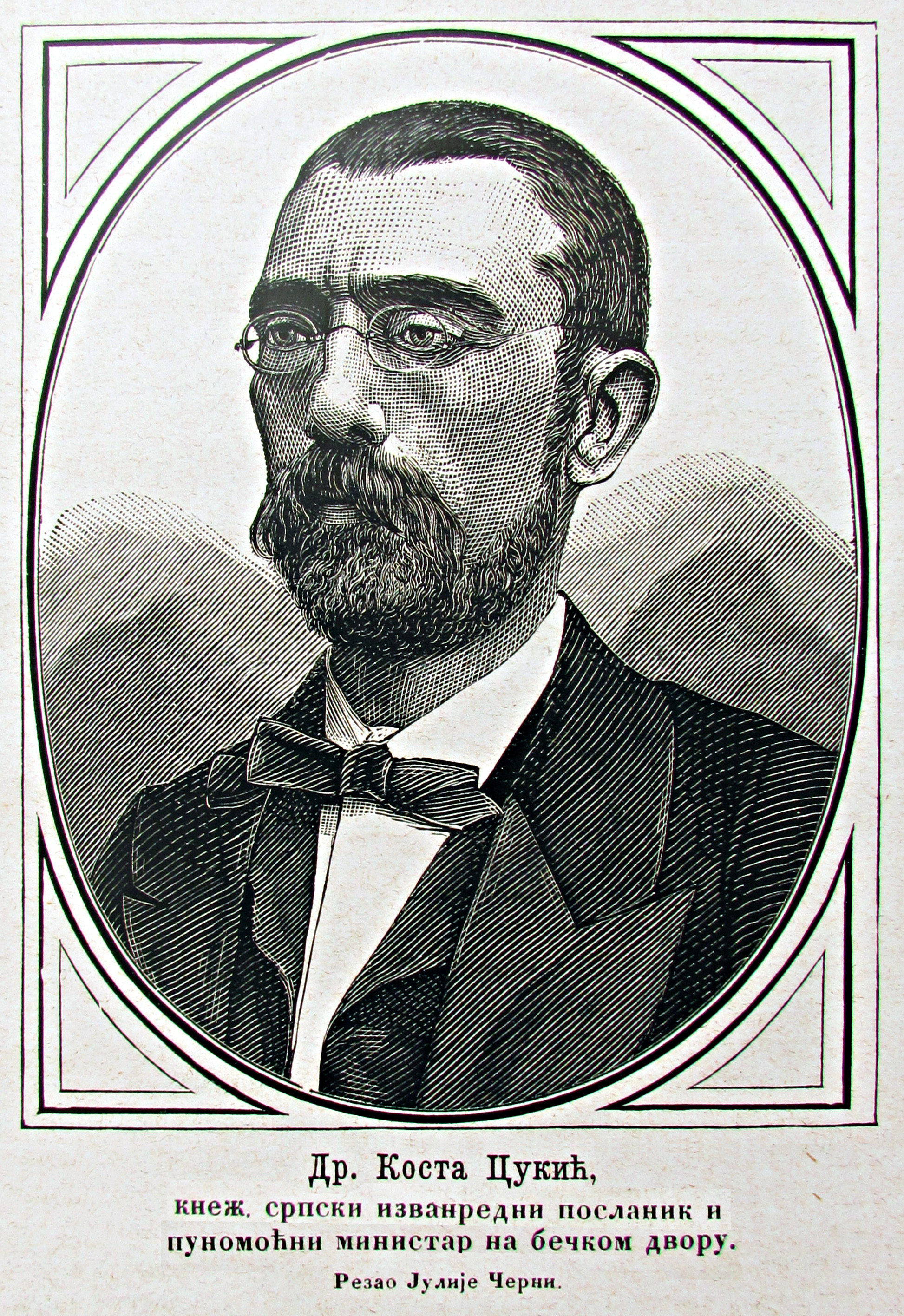 Kosta Cukic, Serbian University professor